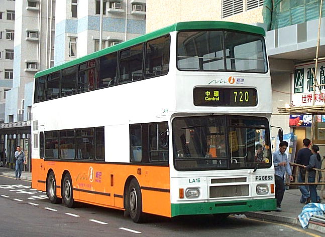 Bus Company: New World First Bus, Hong Kong Bus Model: Leyland Olympian 11 metre Bus Fleet Number: LA16 This bus does not have any bus-body advertisements at that time. Photographer: Alan Mak. Venue in the photograph: Aldrich Bay, Shau Kei Wan, Hong Kong